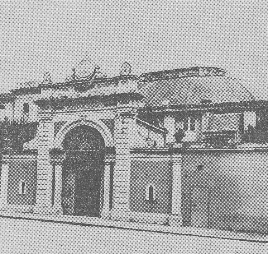 Old "Politeama Pisano" Theatre of Pisa, Tuscany, Italy.